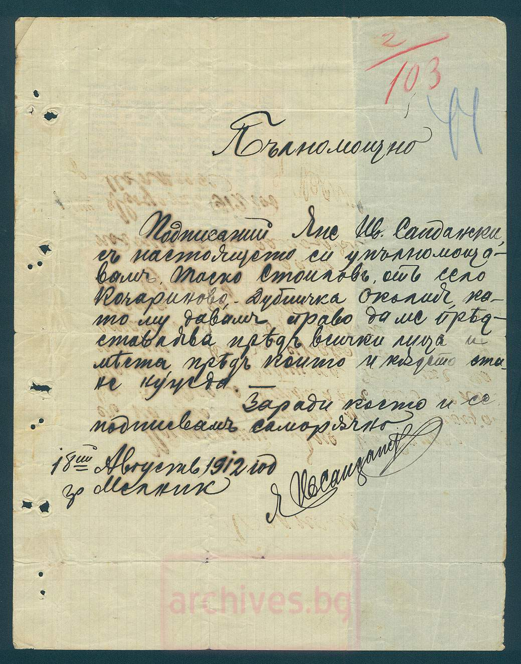 Yane Sandanski Letter 1 August 1912